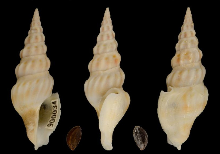 Neodrillia blakensis (Tippett, 2007); family Drilliidae; holotype at the Smithsonian Institution